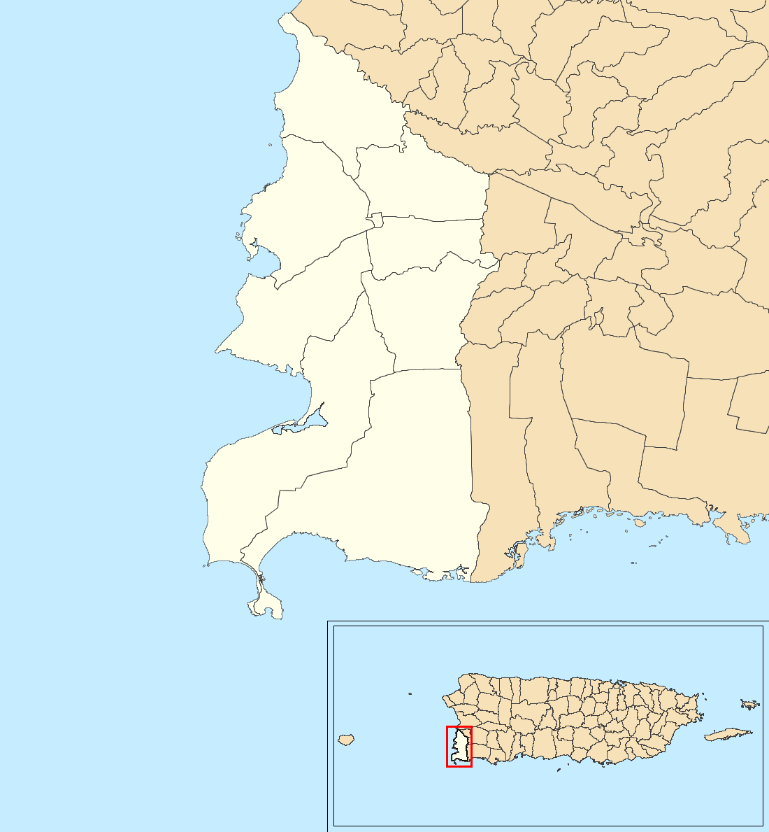 Barrios of locator map